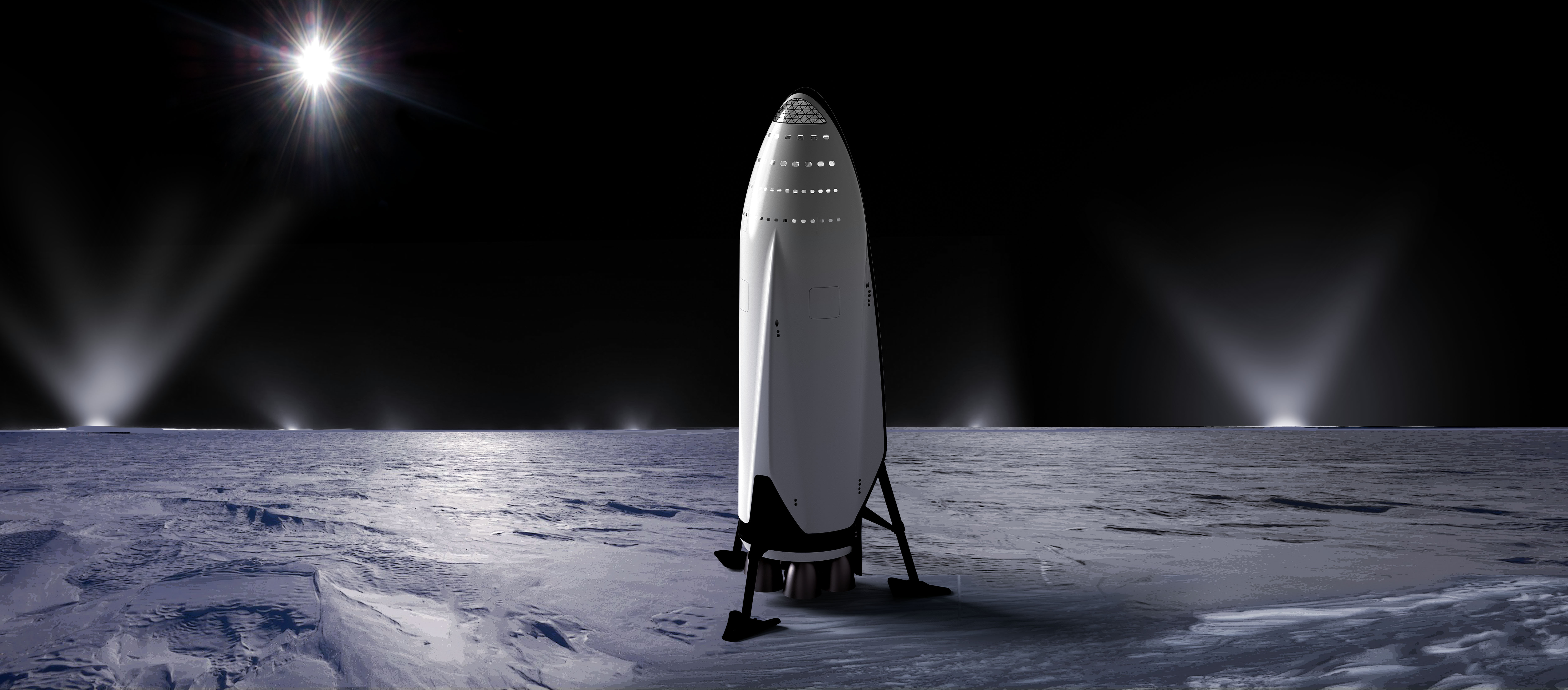 Render of the Interplanetary Spaceship CAD model, with an artist's impression of it landed on the Saturnian moon Enceladus, 2016.